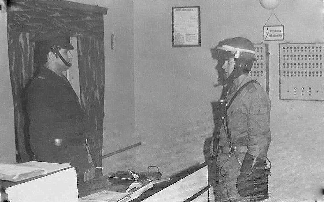 Border Protection Forces in Olszyna